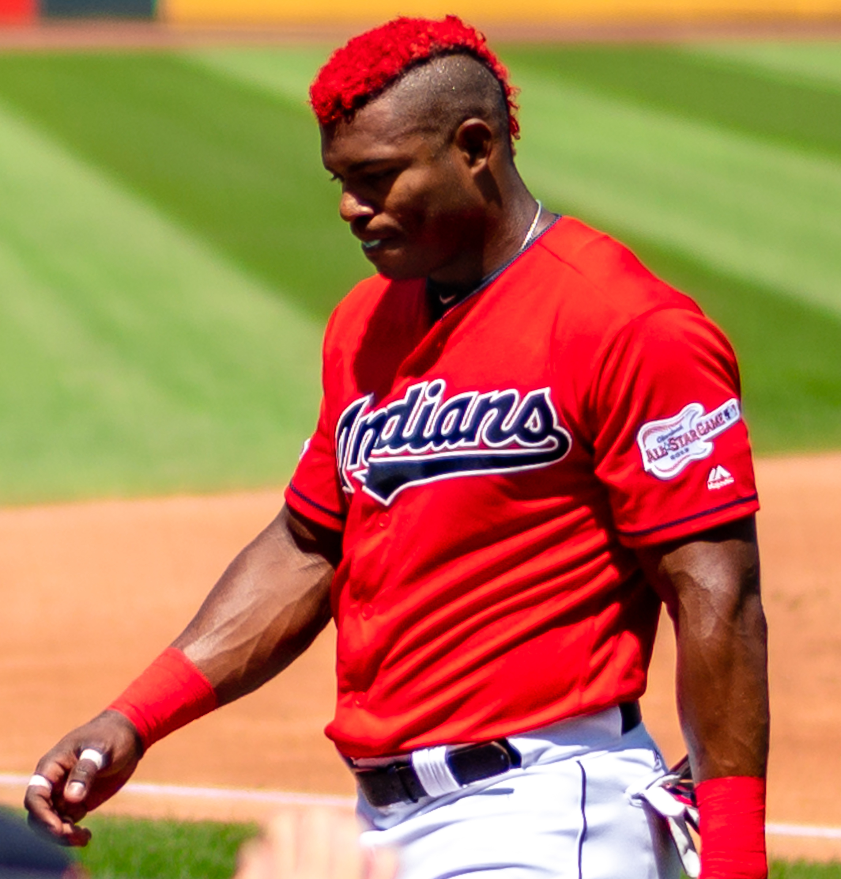 Yasiel Puig of the Cleveland Indians at Jacobs Field in 2019